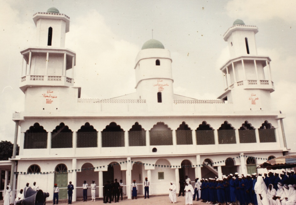 Markhaz Mosque